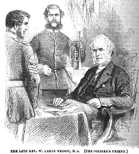 A depiction of Carus Wilson from The Children's Friend, the journal he founded.